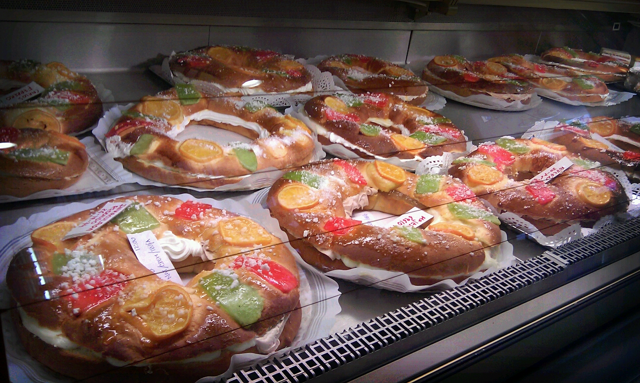 Spanish tradition on Jan 6th